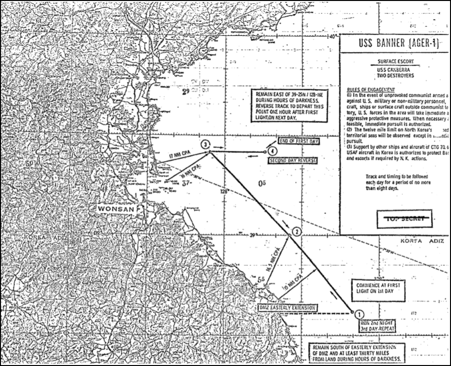 May of the proposed navigational track of the USS Banner (AGER-1) operating in international waters off the east coast of the Democratic People's Republic of Korea a.k.a. North Korea in the Sea of Japan in January 1968, as part of "Index of Possible Actions." Undated. Top Secret. Source: National Archives, Records Group, Records of Gen. Earle Wheeler, Chairman, JCS, box 29, tab 449. This 35-page document lists options for different types of military action against North Korea, and weighs the pros and cons of 12 possible U.S. responses to the Pueblo crisis. Most of them involved military force. The suggestions ranged from the relatively peaceful, such as sending a Navy tugboat to Wonsan harbor to retrieve the spy ship, to major actions likely to provoke a sharp response from North Korea, such as a "raid" by American tanks and troops across the Demilitarized Zone into communist territory or air attacks on seven training centers for communist commandos. Advantages and disadvantages of each option are described in blunt language by the unnamed author. LBJ ultimately chose Action No. 4 - "Show of Force" - ordering a large and rapid buildup of U.S. air and sea forces in and near South Korea. These forces consisted of 361 U.S. combat aircraft as well as an armada of 25 warships built around the USS Enterprise and two other aircraft carriers. The final option on the list was leaking "'firm' information" to the Soviets that the U.S. planned to attack North Korea in retaliation for the spy ship's capture. - National Security Archive Electronic Briefing Book No. 453: USS Pueblo: LBJ Considered Nuclear Weapons, Naval Blockade, Ground Attacks in Response to 1968 North Korean Seizure of Navy Vessel, Documents Show dated January 23, 2014 - National Security Archive - George Washington University